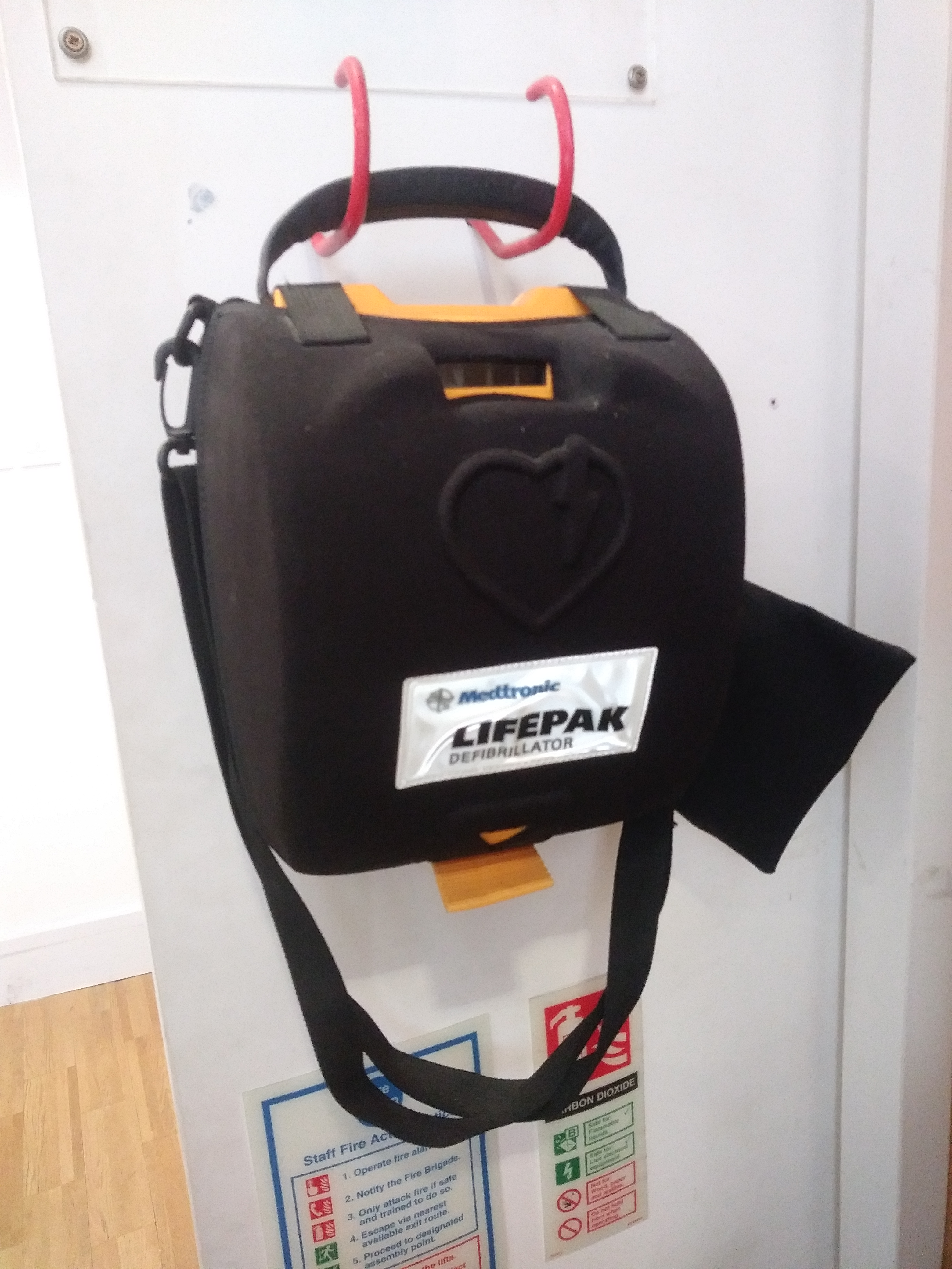 Defibrillatior pack, Aberystwyth Arts Centre, 2019